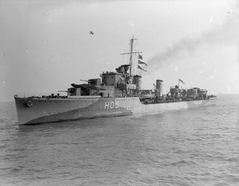 Photograph of British destroyer HMS Ithuriel.